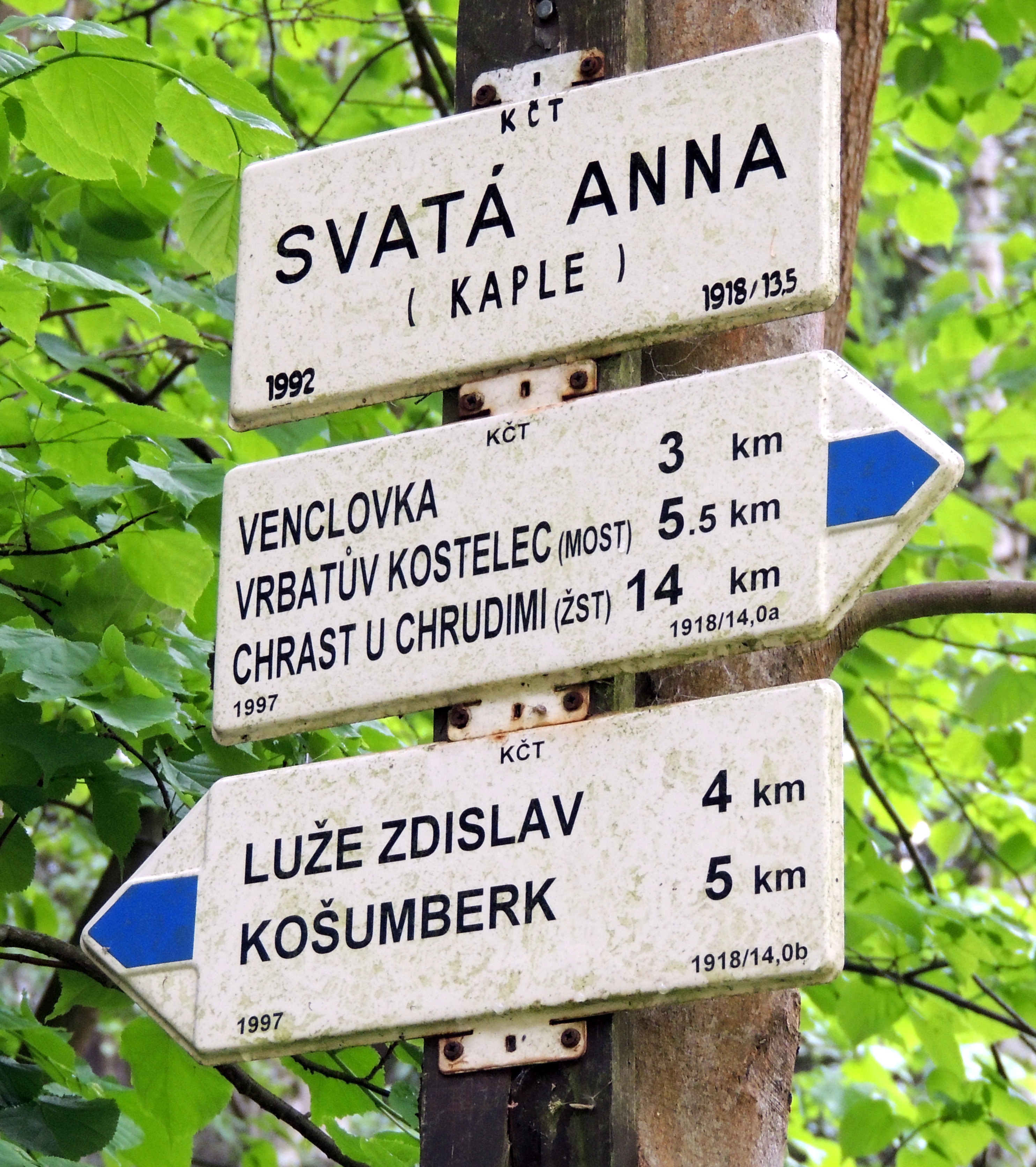 Tourist signpost in a nature reserve and locality of European importance with named Valley of Anny. Photo location - Czechia, Pardubice Region, Skuteč town.